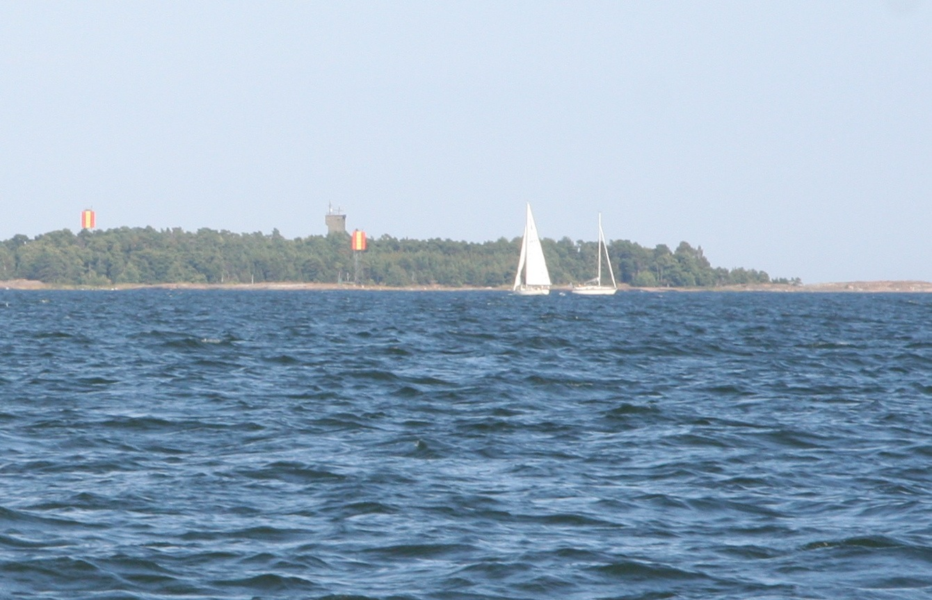 Red and yellow navigation aids on Kytö Island, Espoo, Finland